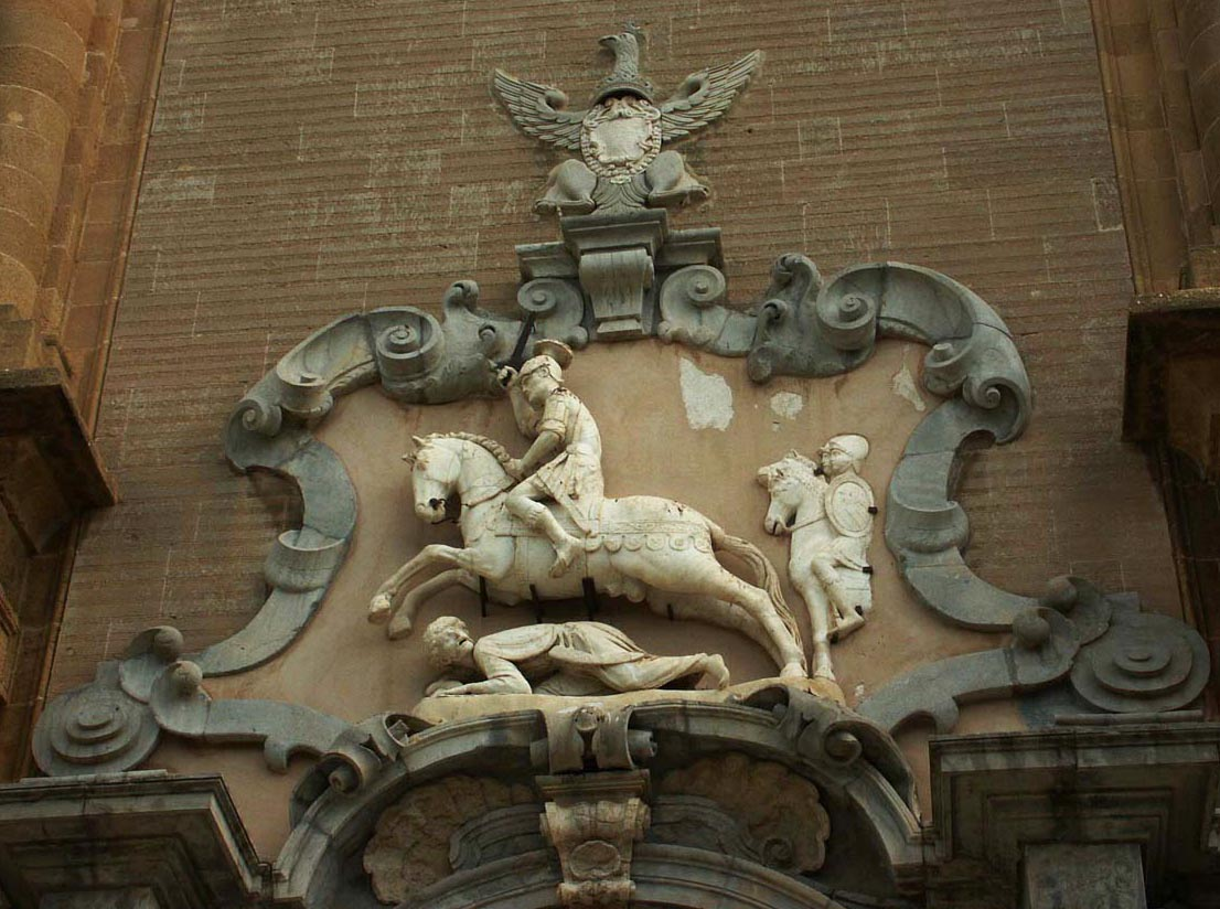 Mazara del Vallo Cathedral - Roger I kill Saracens